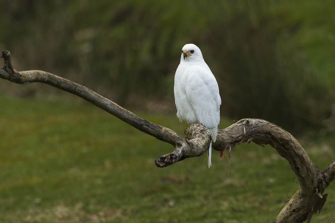 Grey Goshawk ( white morph ) - Tasmania_S4E6209